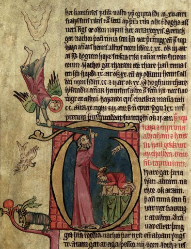 Isaac's sacrifice.